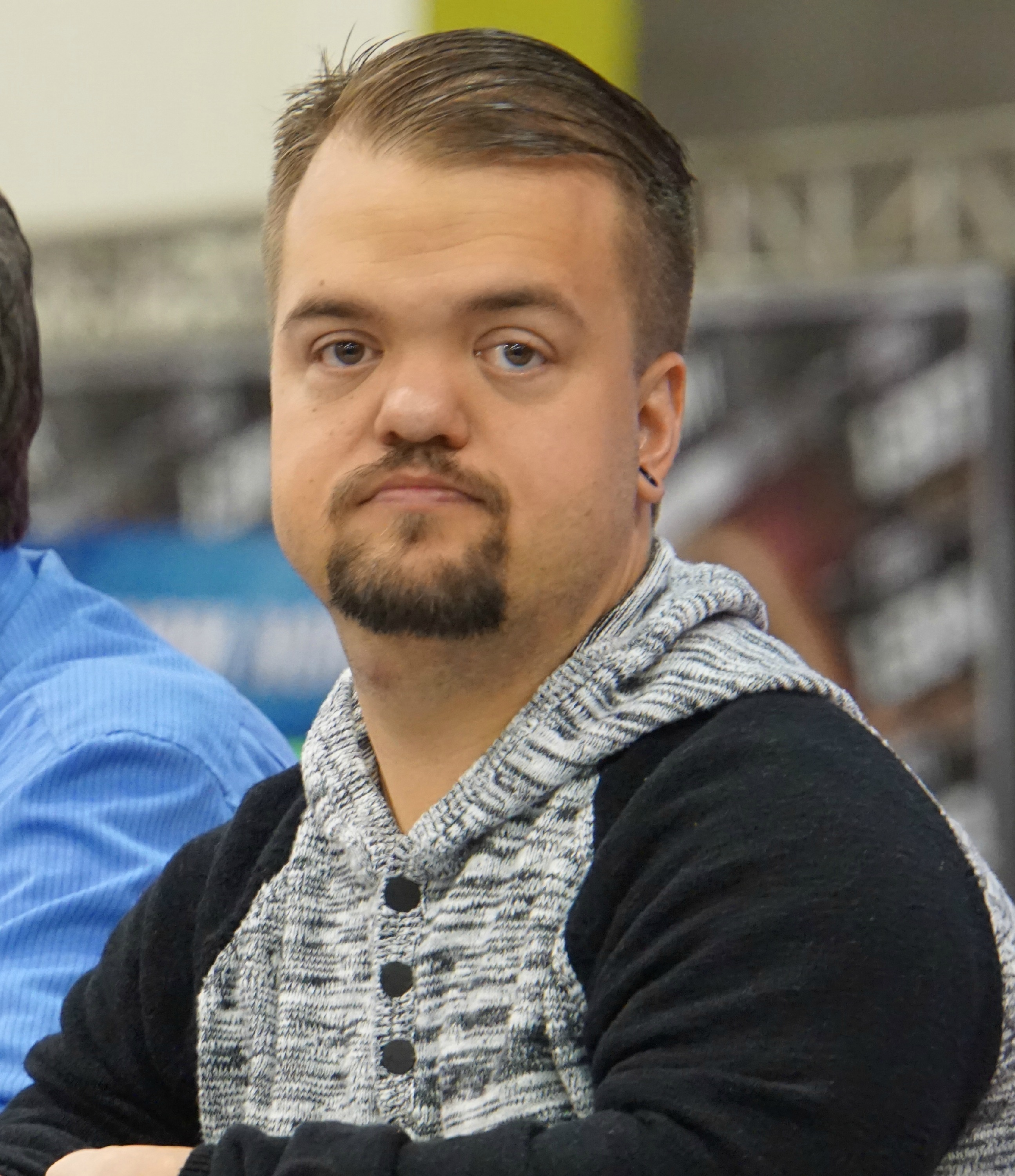 Hornswoggle At WrestleMania Axxess 2015